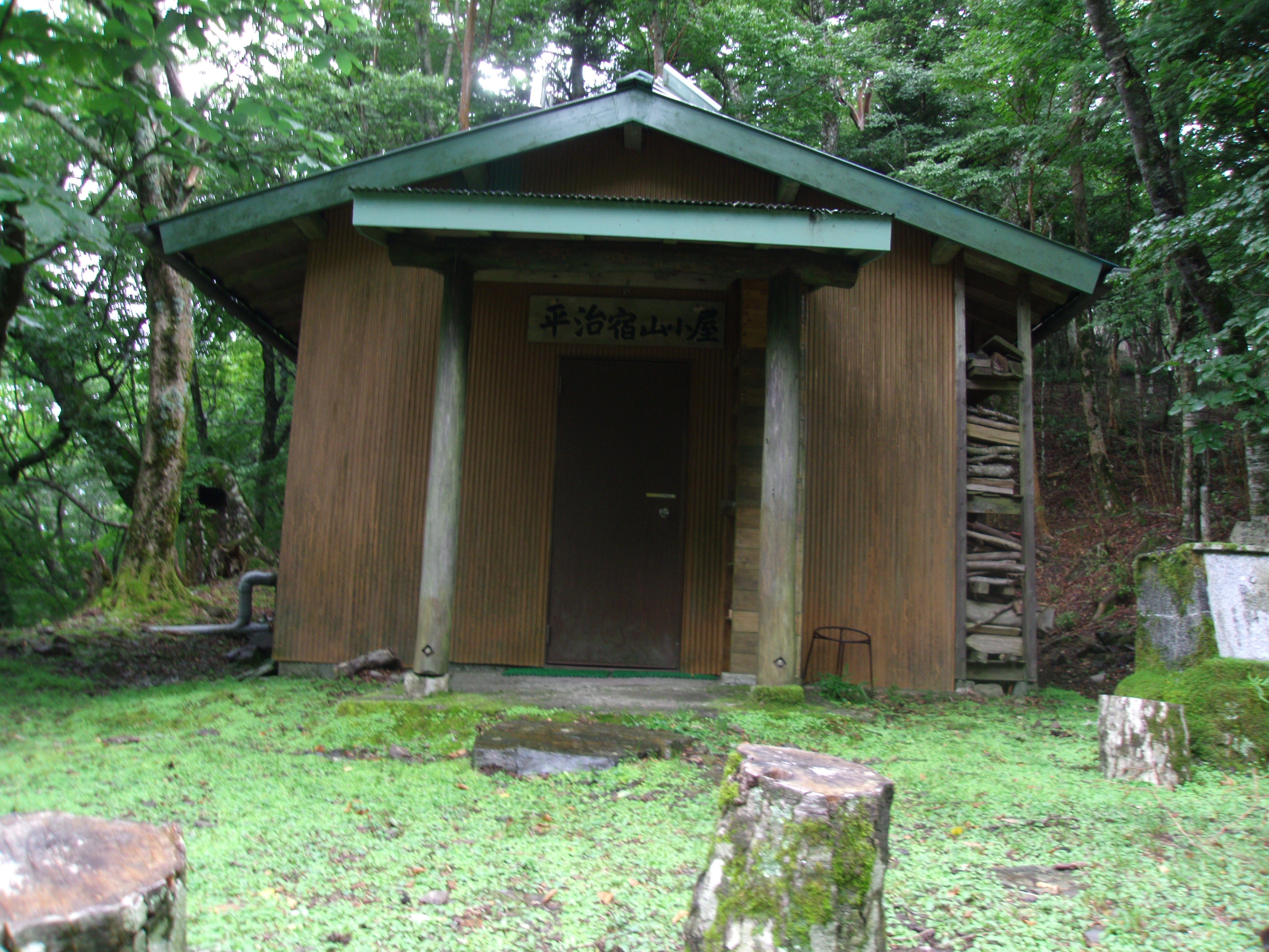 Mountain hut Heiji-no-shuku yamagoya on the Omine okugake-michi trail in the Omine Mountains, Nara Prefecture, Japan